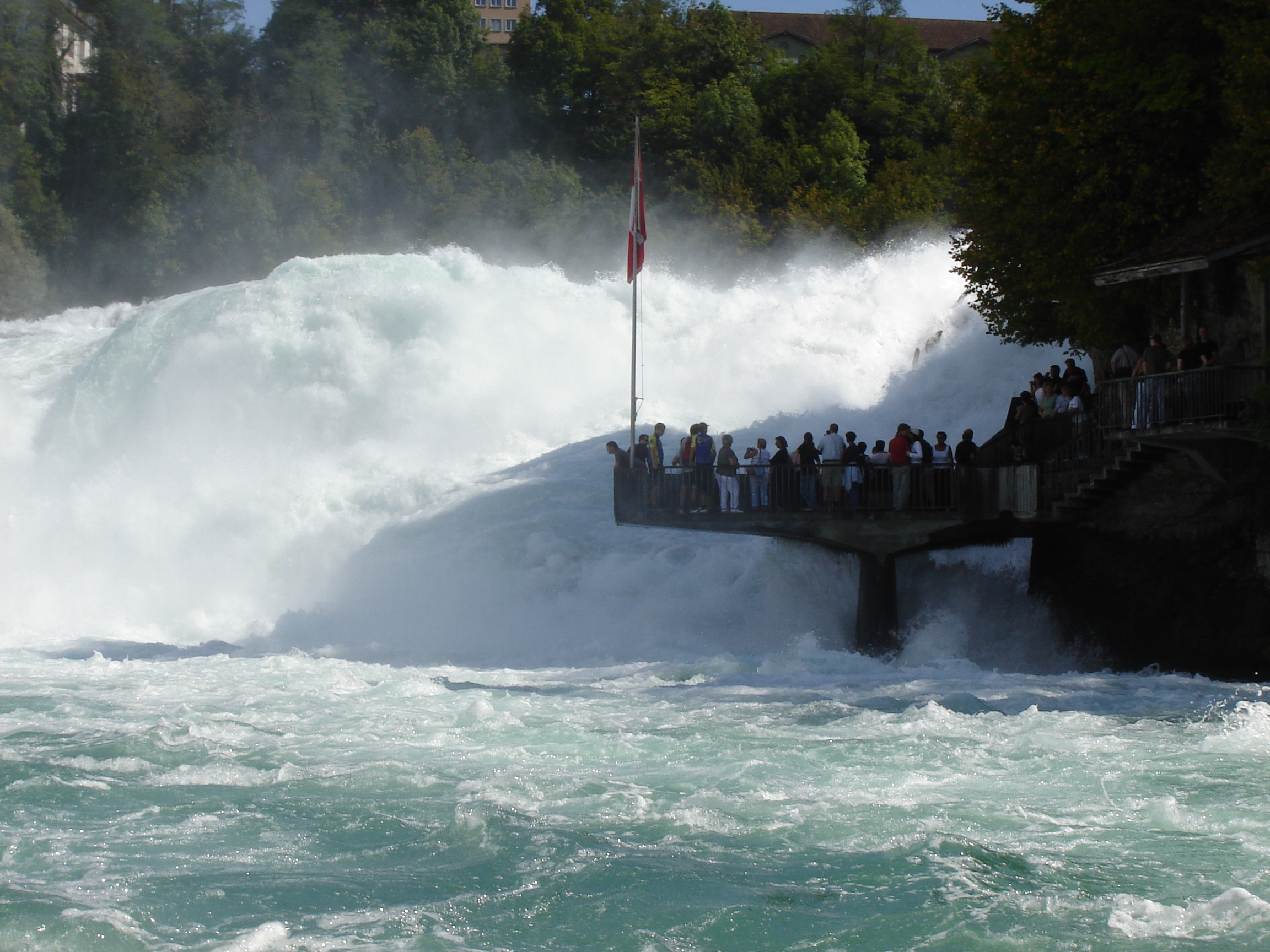 Tourists watching the watterfall